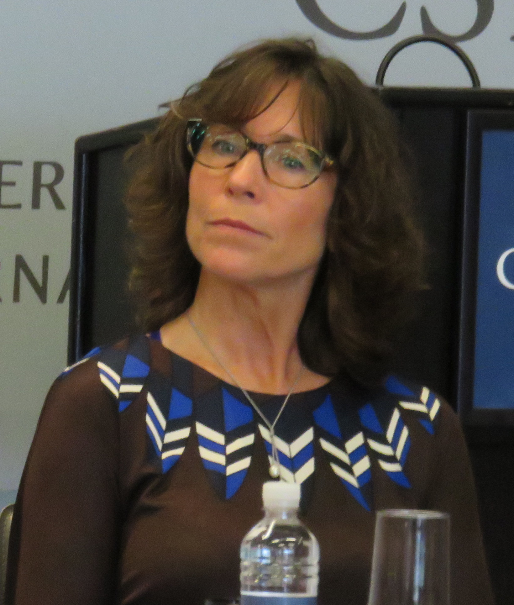 Kori Schake in the panel discussion, "Debate: U.S. Nuclear Weapon Modernization", at Center for Strategic and International Studies, Washington, D.C., 29 June 2017